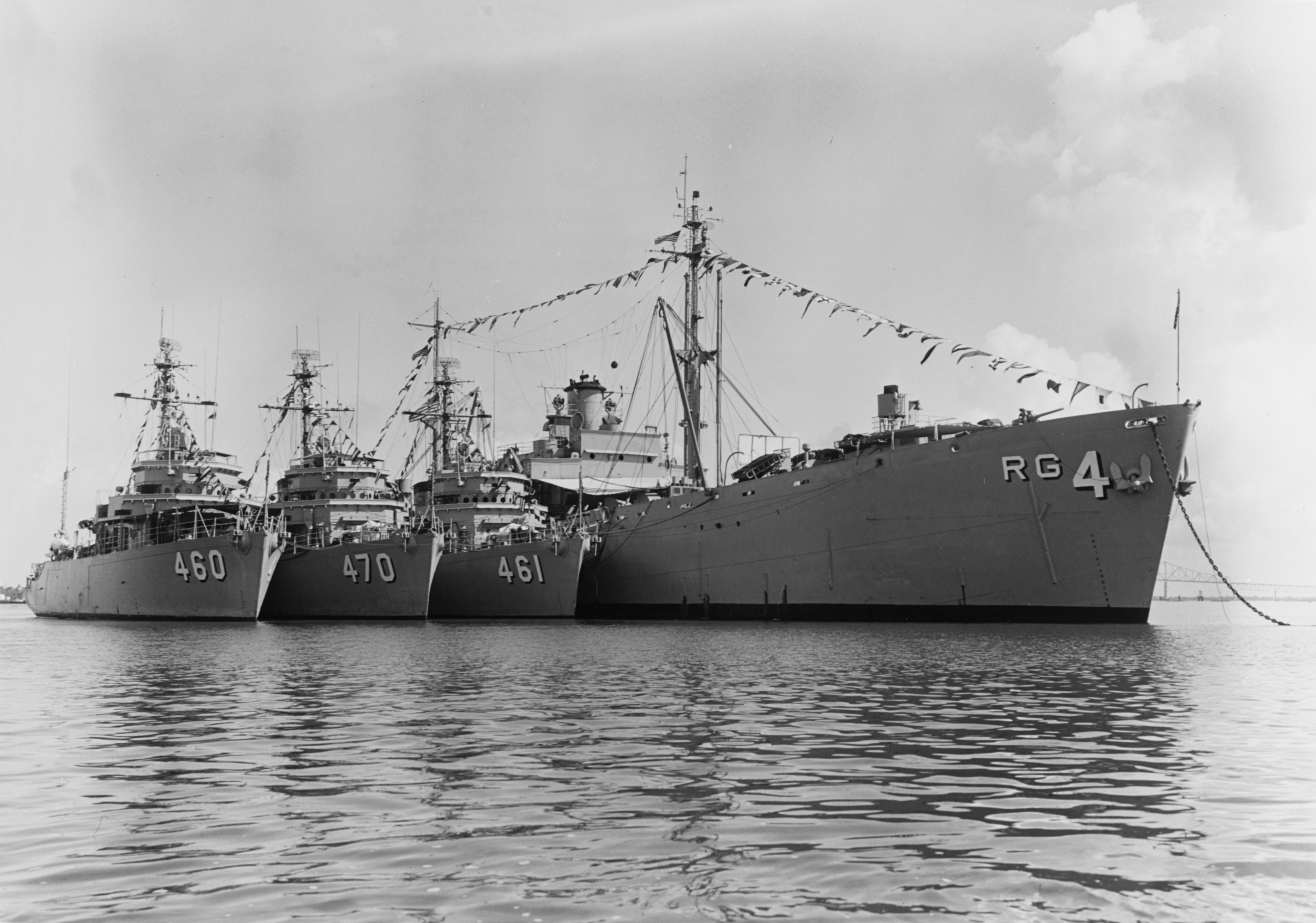 The U.S. Navy minesweepers USS Notable (MSO-460), USS Salute (MSO-470) and USS Observer (MSO-461) alongside the internal combustion engine repair ship USS Tutuila (ARG-4), at Charleston, South Carolina (USA), on 22 January 1964.